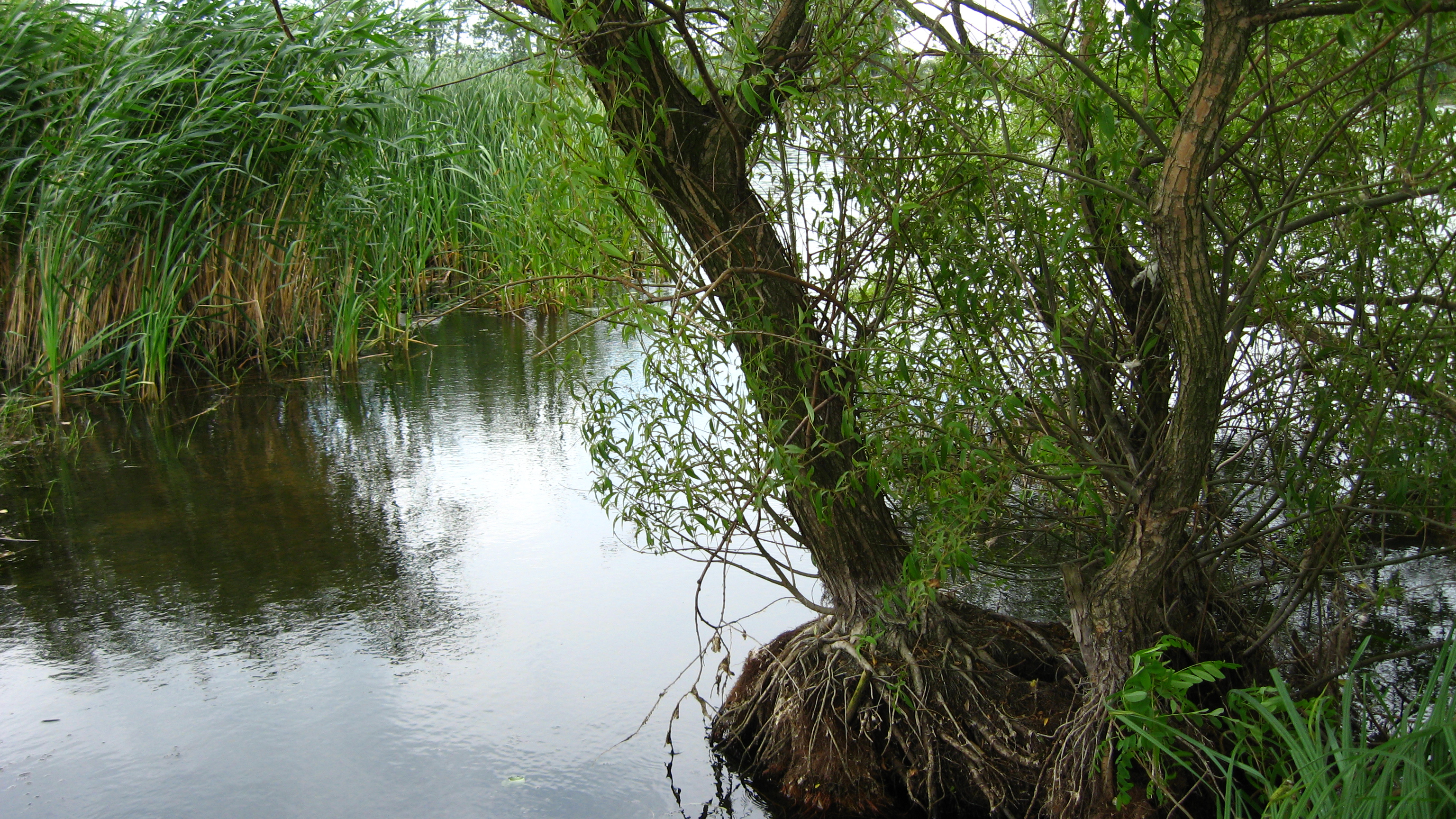 Protected area „Zlato Pole“, Zlatopole, Bulgaria